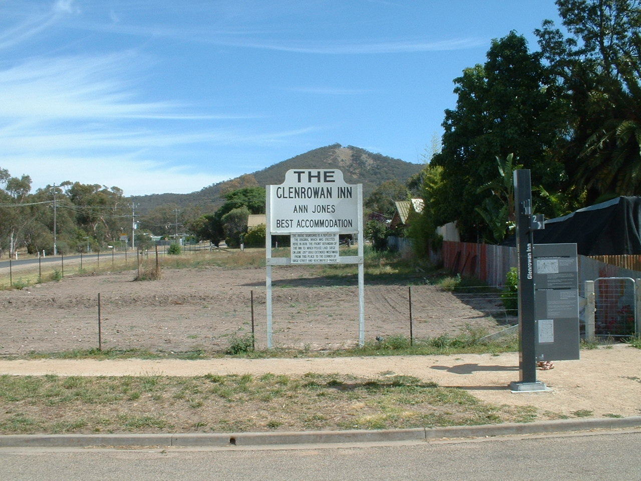 The site of the Glenrown Inn. This was where the bushrangers, Ned Kelly, Dan Kelly, Joe Byrne and Steve Hart had their final shoot out with the police in 1880, at Glenrowan, Victoria, Australia.